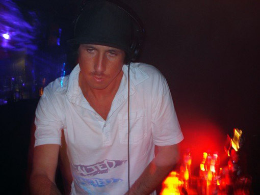 DJ Miguel Migs @ Live